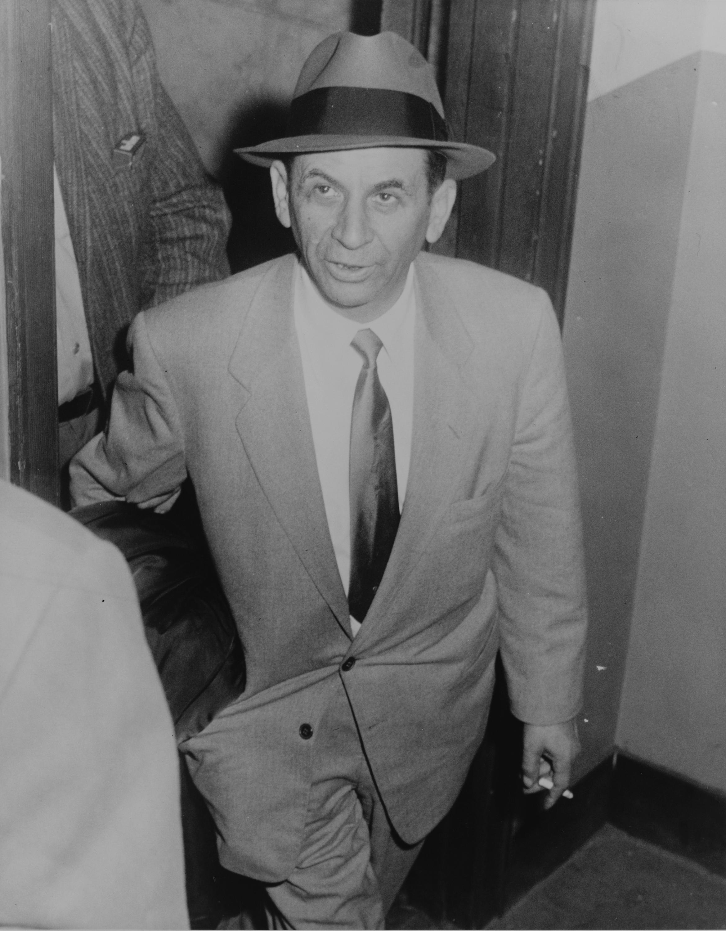 Meyer Lansky at 54 St. police station, New York City, being booked for vagrancy